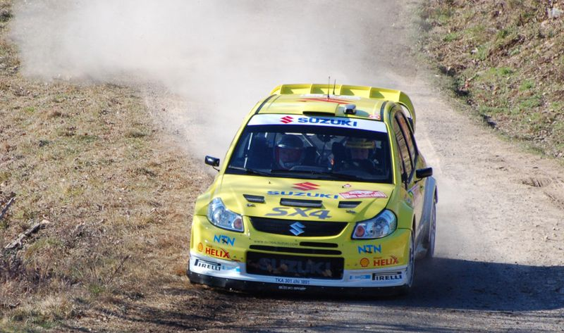 Gardemeister in Rallye Monte-Carlo 2008